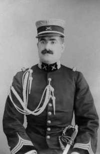 Liberato Damião Ribeiro Pinto (1880–1949), prime minister of Portugal in 1920-1921